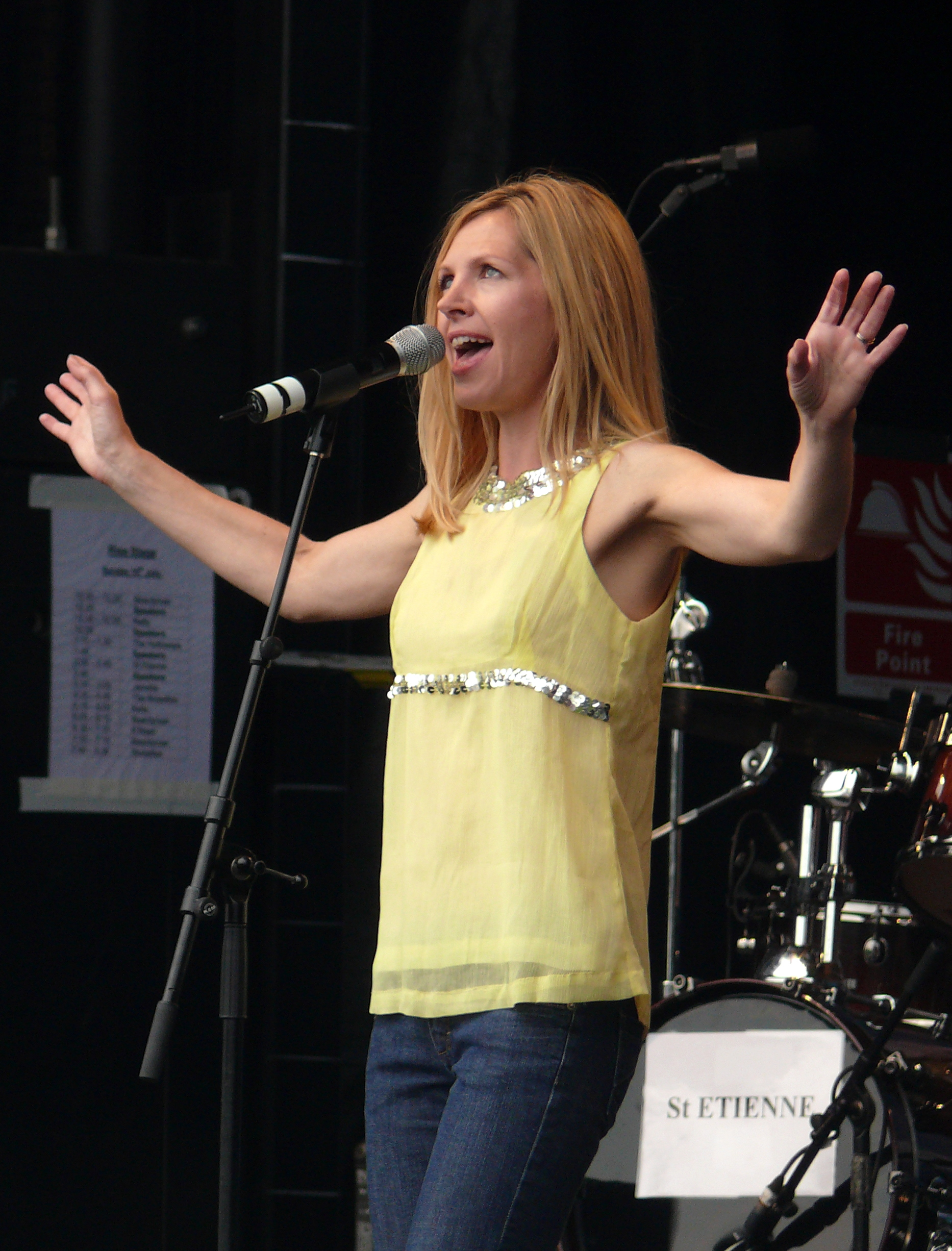 Sarah Cracknell @ Rise Festival, Finsbury Park